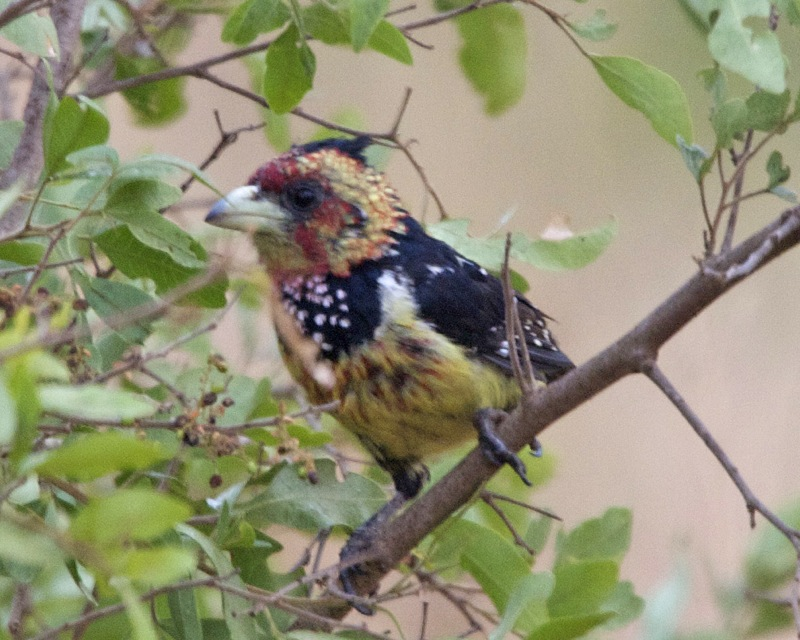 Crested barbet Tachyphonus vaillantii ssp Trachyphonus vaillantii suahelicus Akagera National Park, Rwanda 15th. August 2009 Distribution : ssp : Shona: Chizuvaguru Swahili: Zuwakulu Ushungi Tswana: Kôpaôpê Tsonga: Ngo